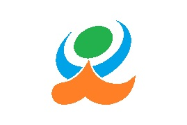 Flag of Kami-amakisa Kumamoto white version